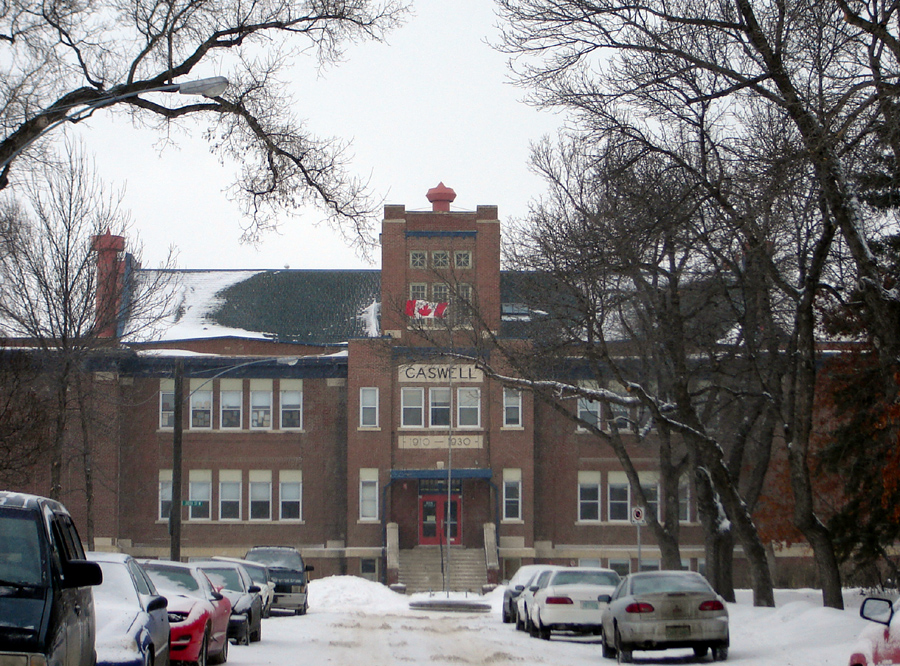 Caswell School Caswell Hill, Saskatoon, Saskatchewan, Core Neighbourhoods SDA, Saskatoon, Saskatchewan, Canada